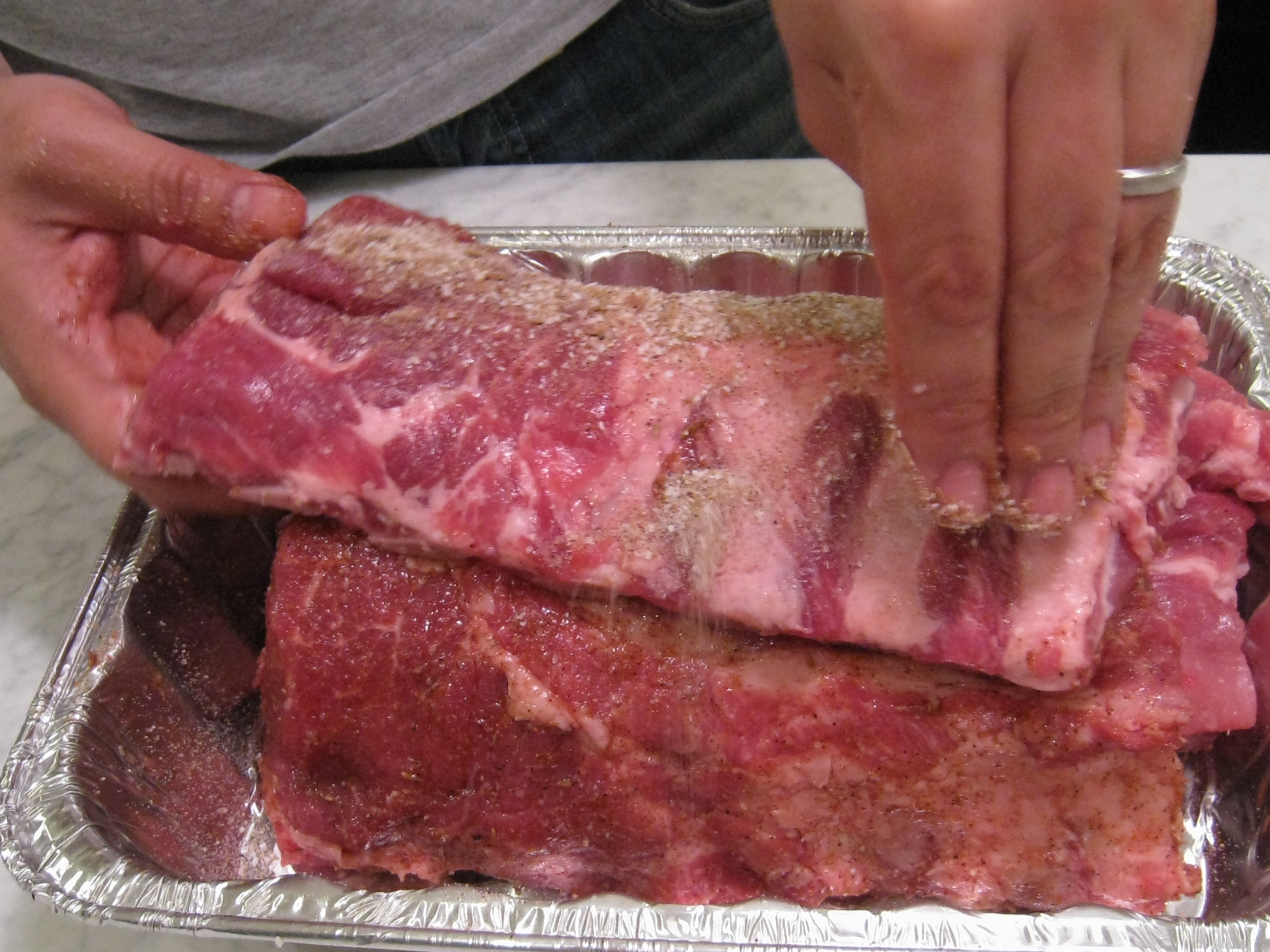 Applying a dry spice rub to pork ribs for a barbecue.